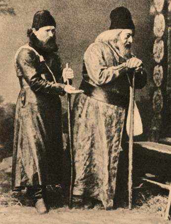 Russian opera singers Gennady Kondratyev and Osip Petrov, who created the roles of Misail and Varlaam in Boris Godunov (1874)